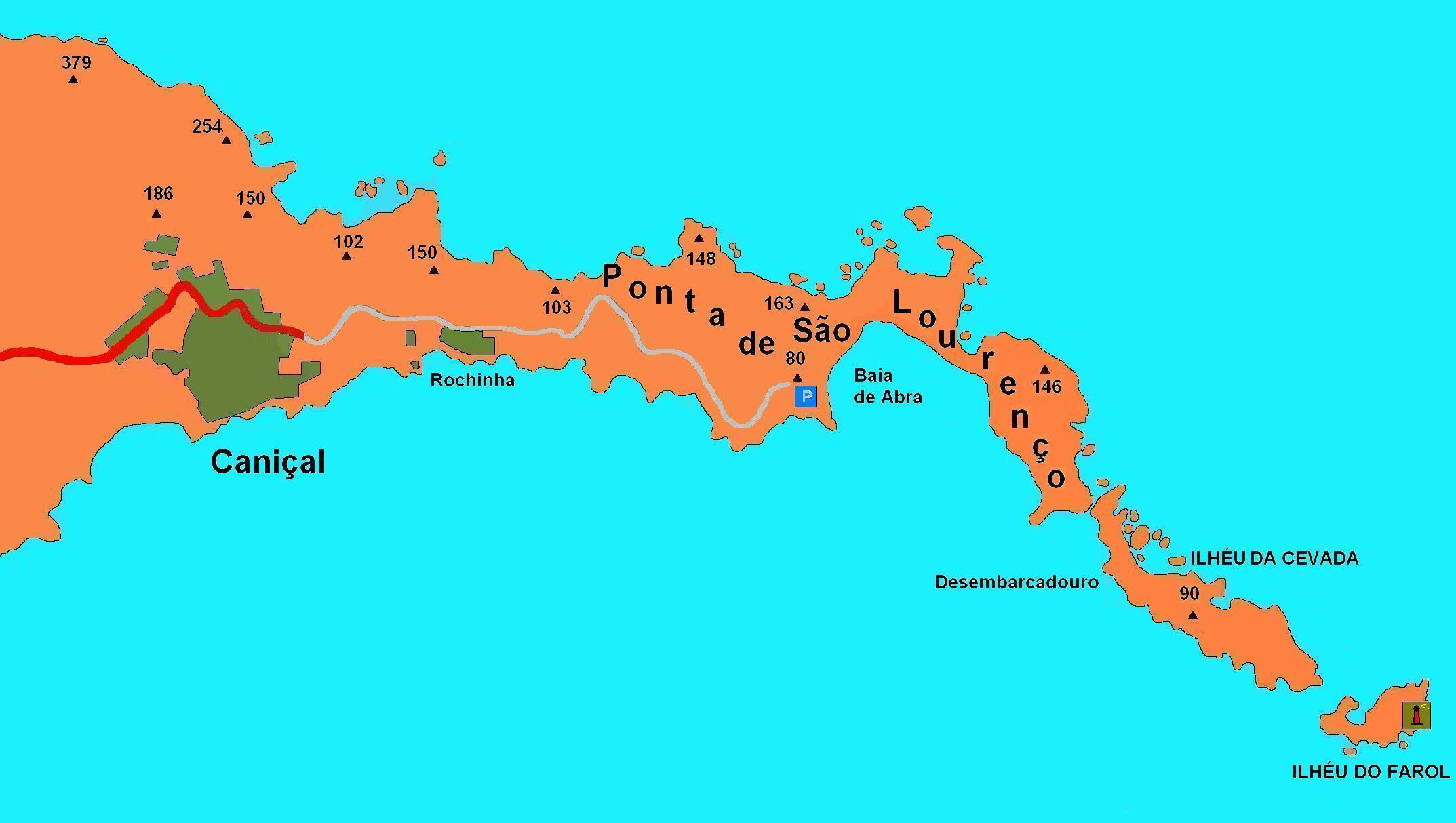 Map of east hook of Madeira island.